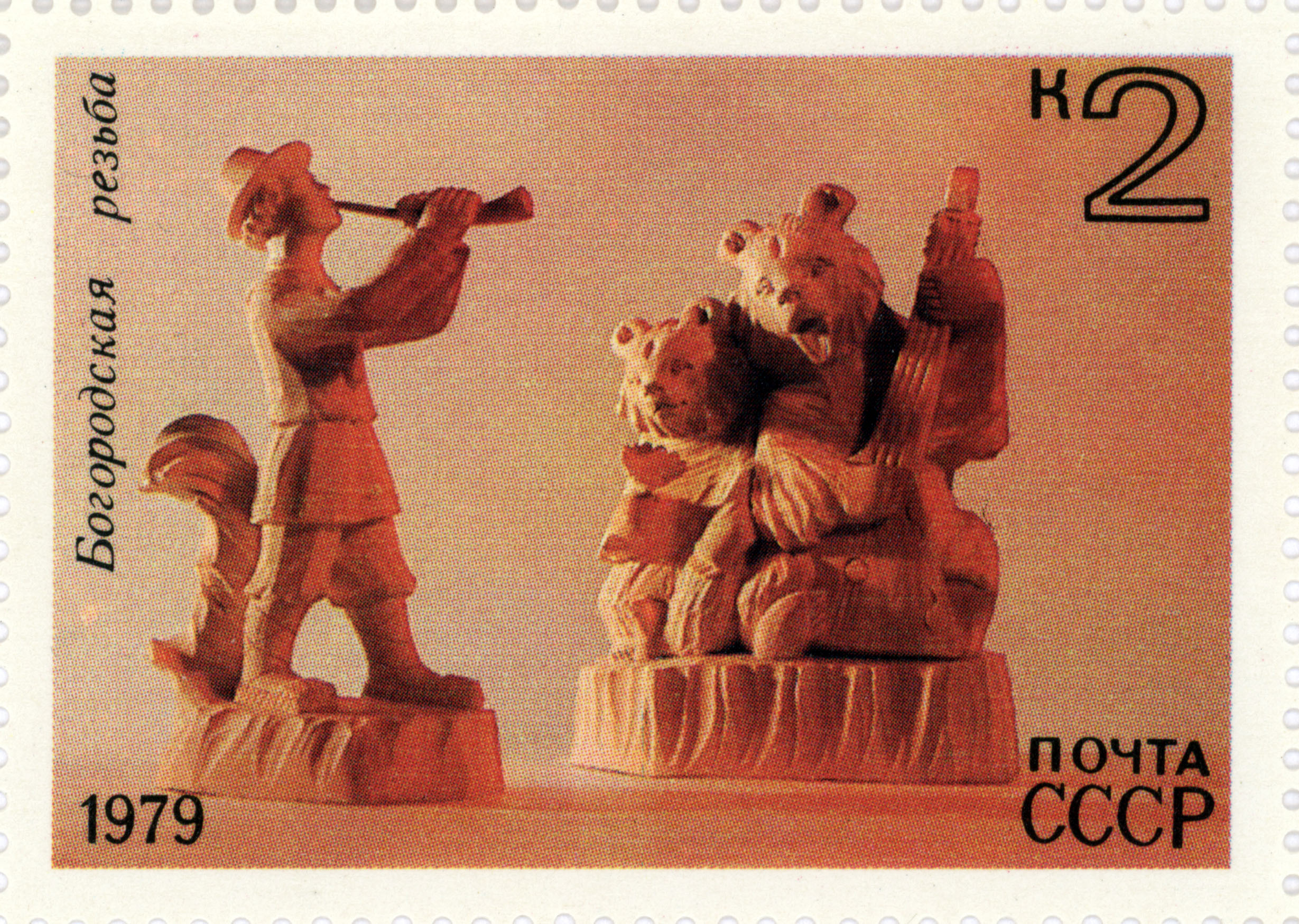 A USSR stamp depicting wooden toy made by wood carvers from Bogorodskoe